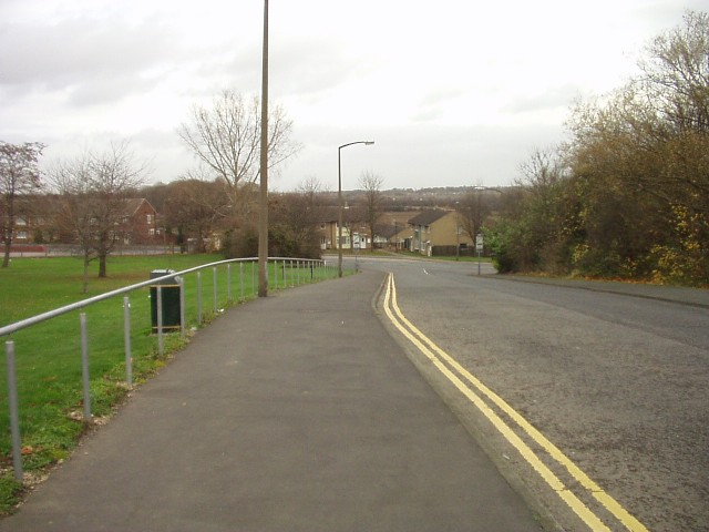 Warmsworth Halt View along Warmsworth Halt towards Edlington Lane. This was once the site of Warmsworth Junction on the Hull & Barnsley/Great Central Joint railway